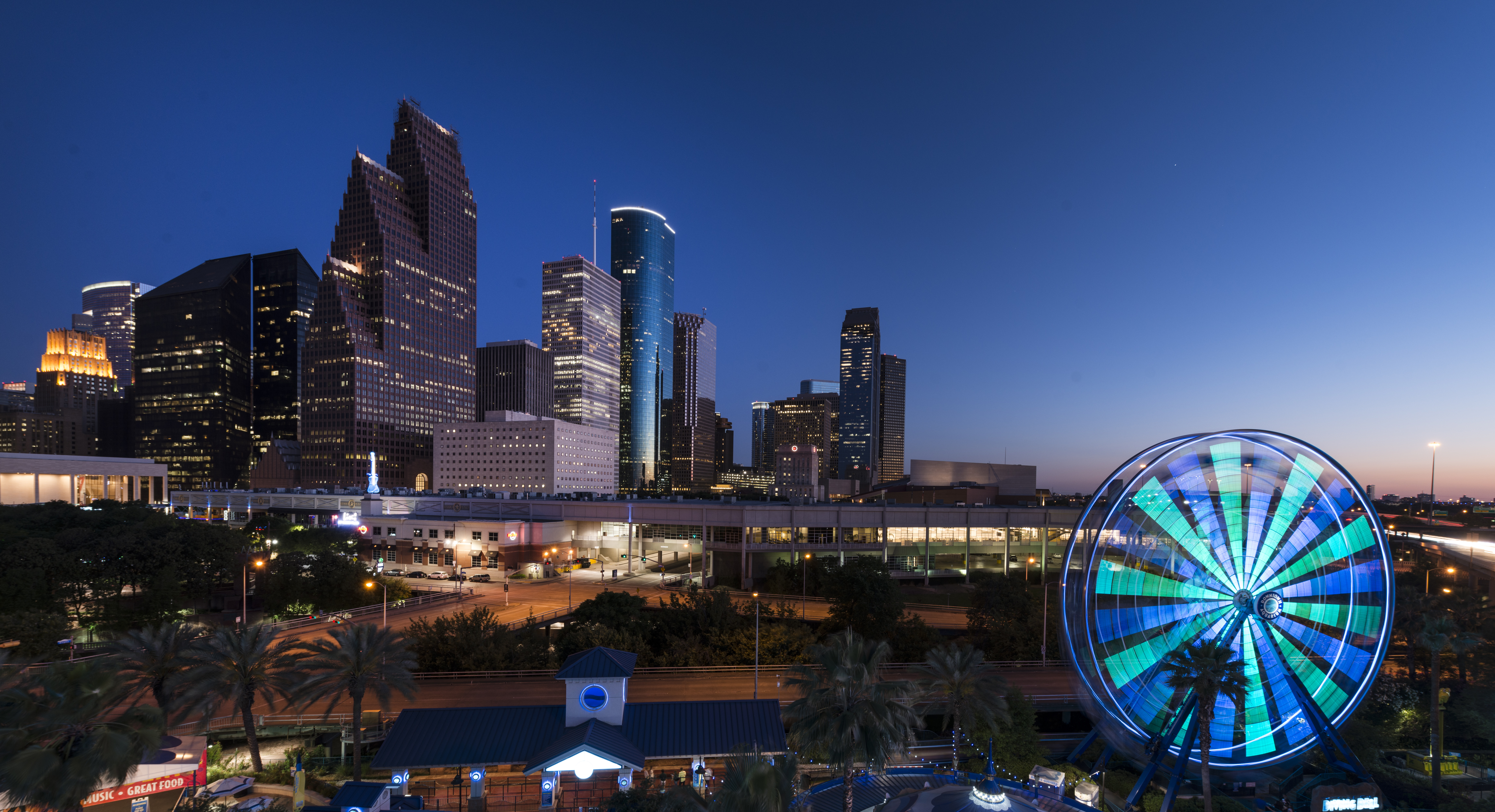 Dusk shot of Houston, taken from the Downtown Aquarium, in Texas, United States. The spinning wheel at the right is the aquarium's Ferris wheel. This photograph is part of the Lyda Hill Texas Collection at the Library of Congress.